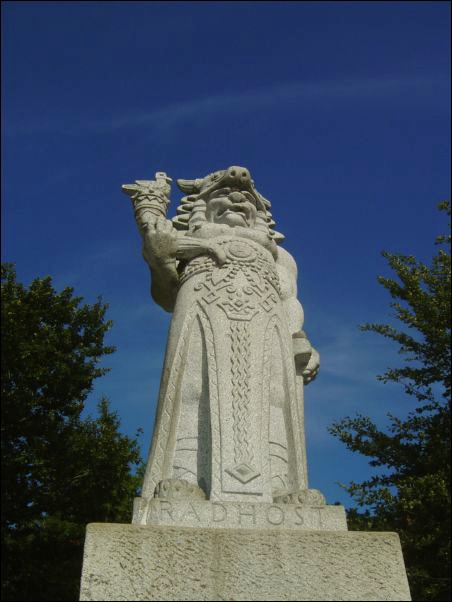 Statue of god Radegast on Radhošť Mt., Czech Republic. A copy (1998) of 1931 statue. The original statue by Albín Polášek is today at town hall in Frenštát pod Radhoštěm.